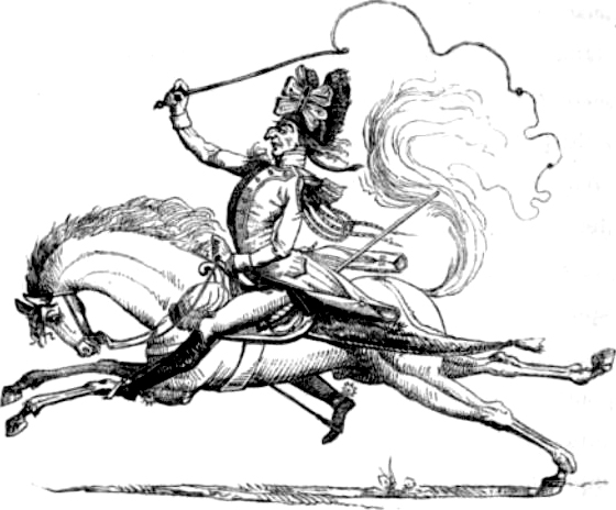 Caricature of Karl Freiherr Mack von Leiberich (1752-1828), Austrian general as “swift-footed Achilles” and “General San Gennaro”.